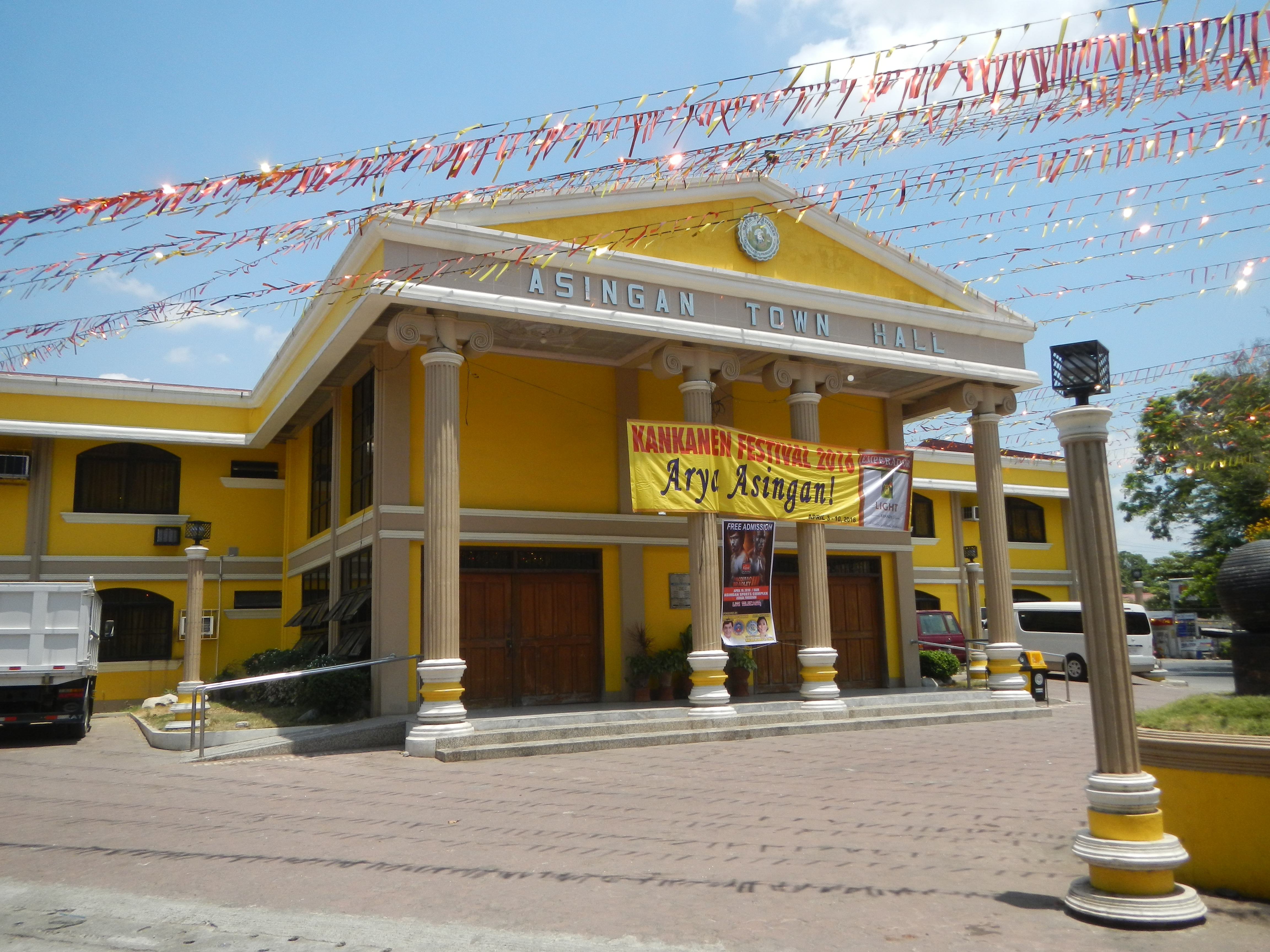 Villasis-Asingan, Pangasinan Provincial Road in List of barangays in Pangasinan, Barangays of Pangasinan, Barangays San Blas, Caramutan and Piaz, Villasis, Pangasinan by the Tarlac–Pangasinan–La Union Expressway (Villasis, Pangasinan section) beside List of barangays in Pangasinan, Barangays of Pangasinan, Barangays Carosucan Sur, Carosucan Norte, Cabalitian, Sanchez, Baro and Poblacion West and Poblacion East, Asingan, Pangasinan, Pangasinan Province Asingan Town Hall in Town Proper.